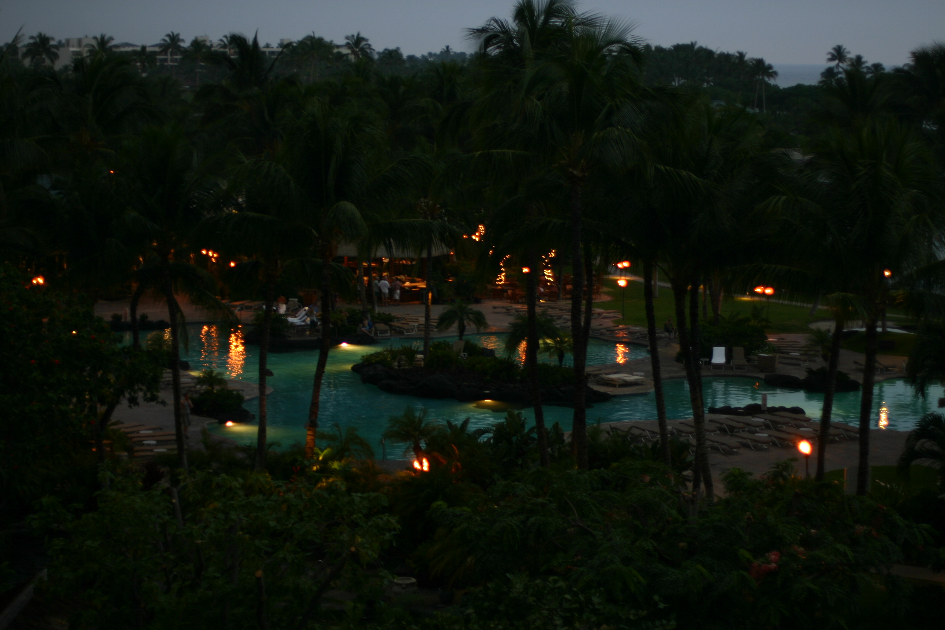 from our balcony